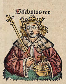 Woodcut from the Nuremberg Chronicle